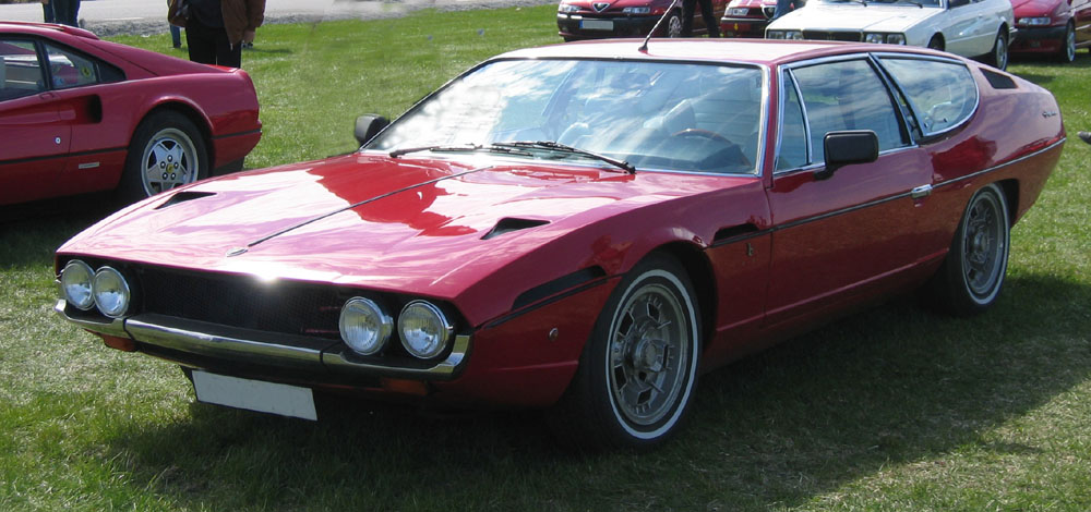 Lamborghini Espada S2 1972 Posted on Wikipedia with permission.